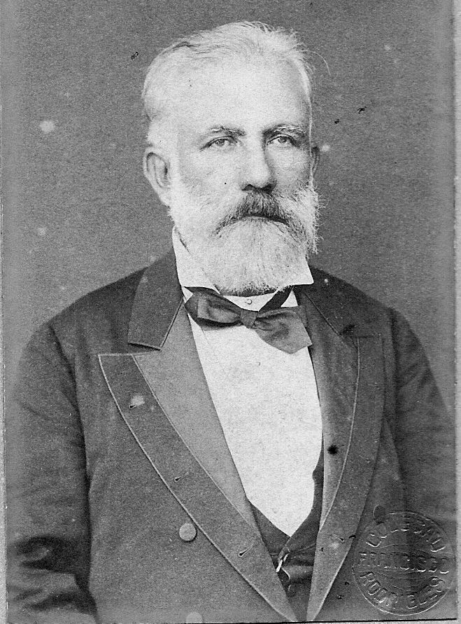 André Dias de Araújo [barão de Jundiá, Engenho Noruega, PE]. (Col. Francisco Rodrigues; FR-718) - original image cropped and grayscalled